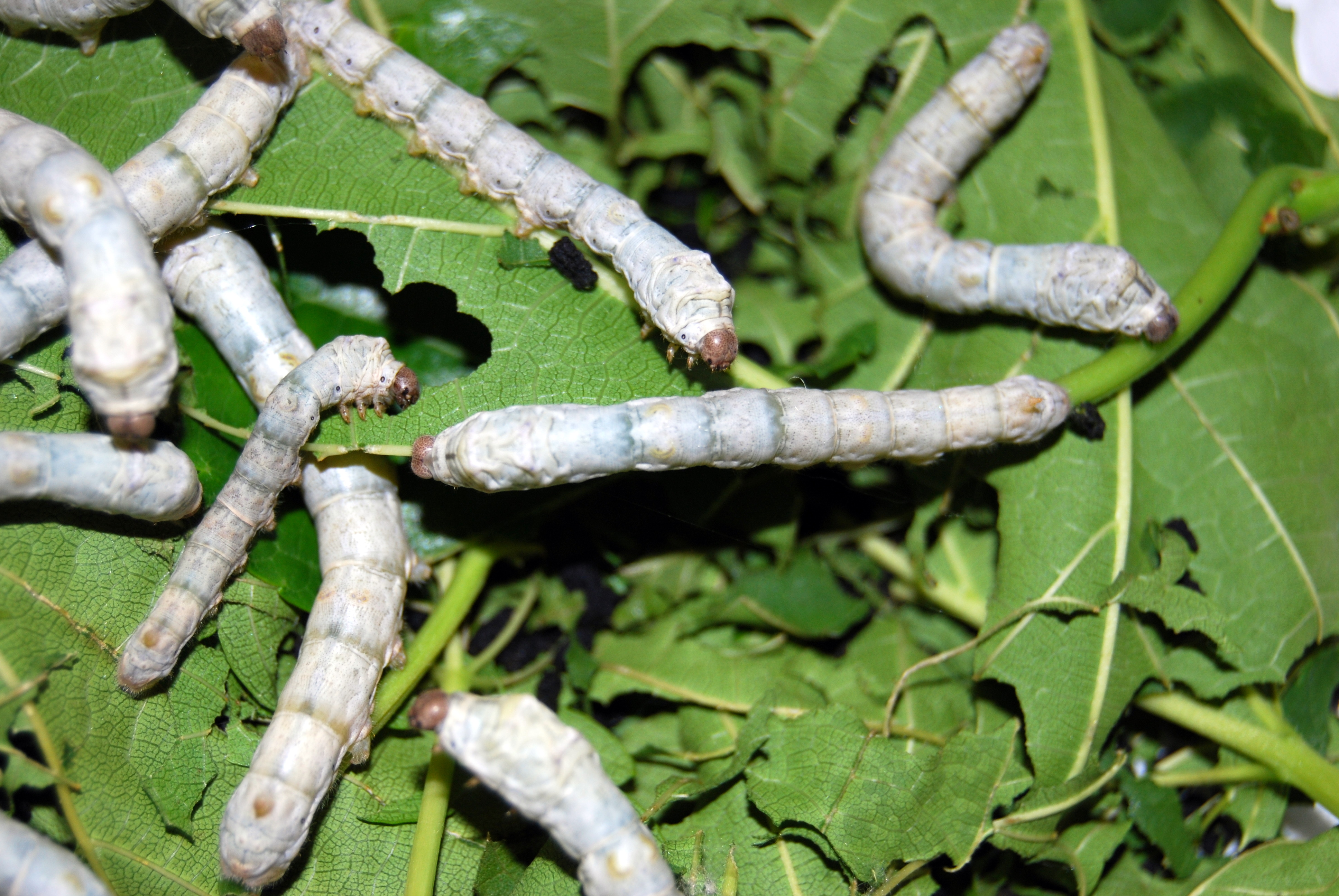 Fourth Instar Silkworm Larvae